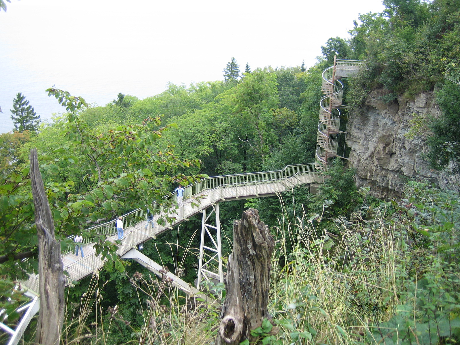 Viewing platform of Valaste Waterfall